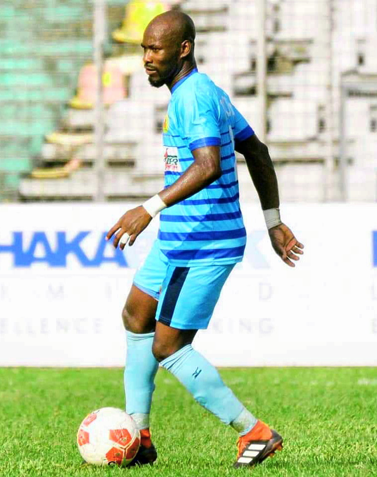 Daniel Tagoe playing for Chittagong Abahani in 2019